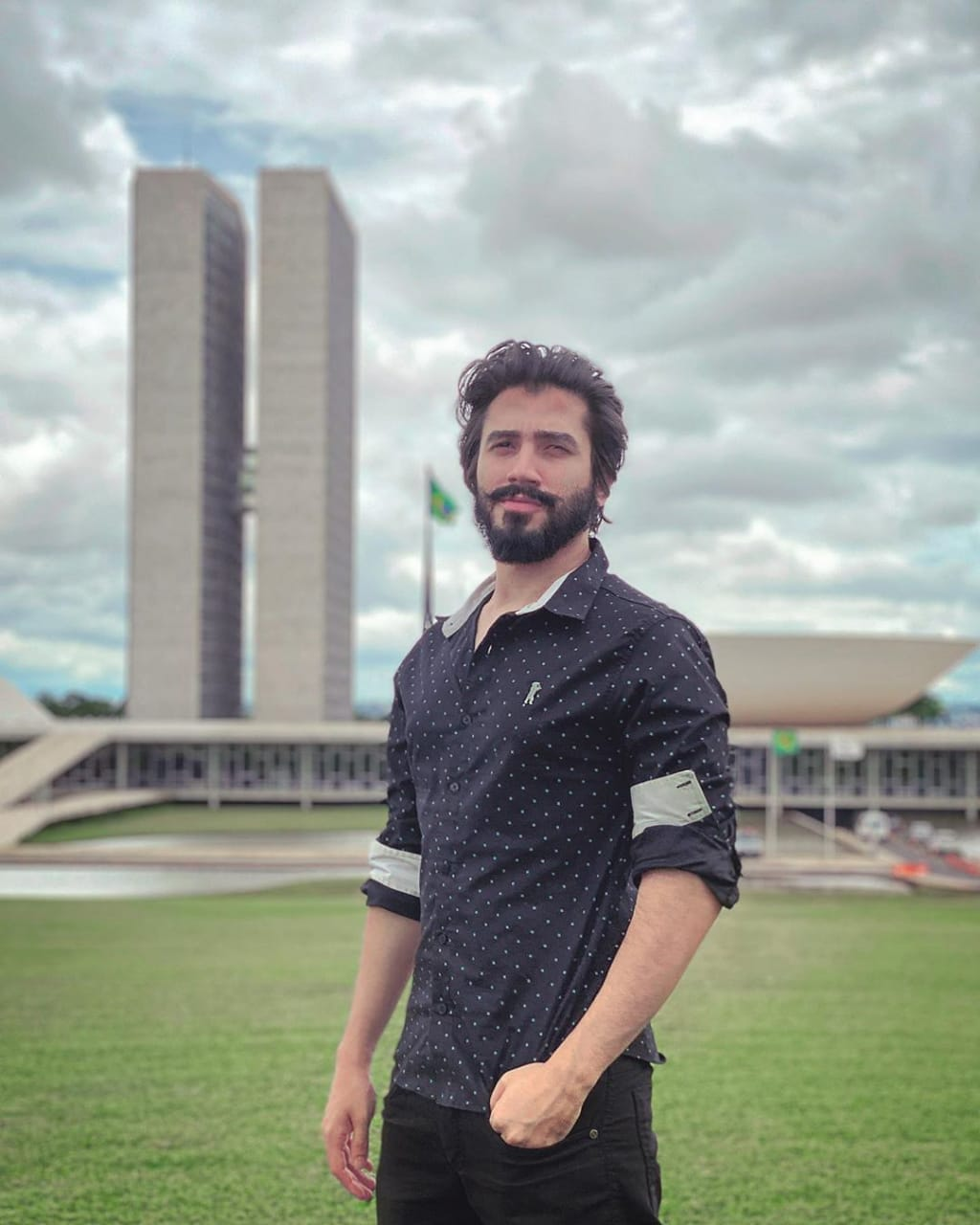 Franz Ventura